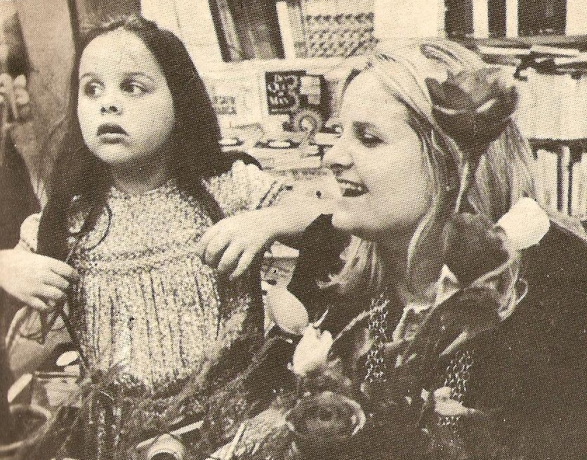 Poldy Bird, escritora argentina